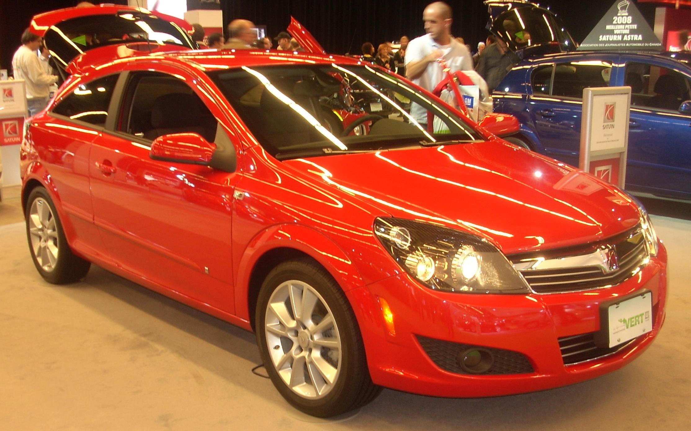 2008 Saturn Astra photographed at the Montreal Auto Show.